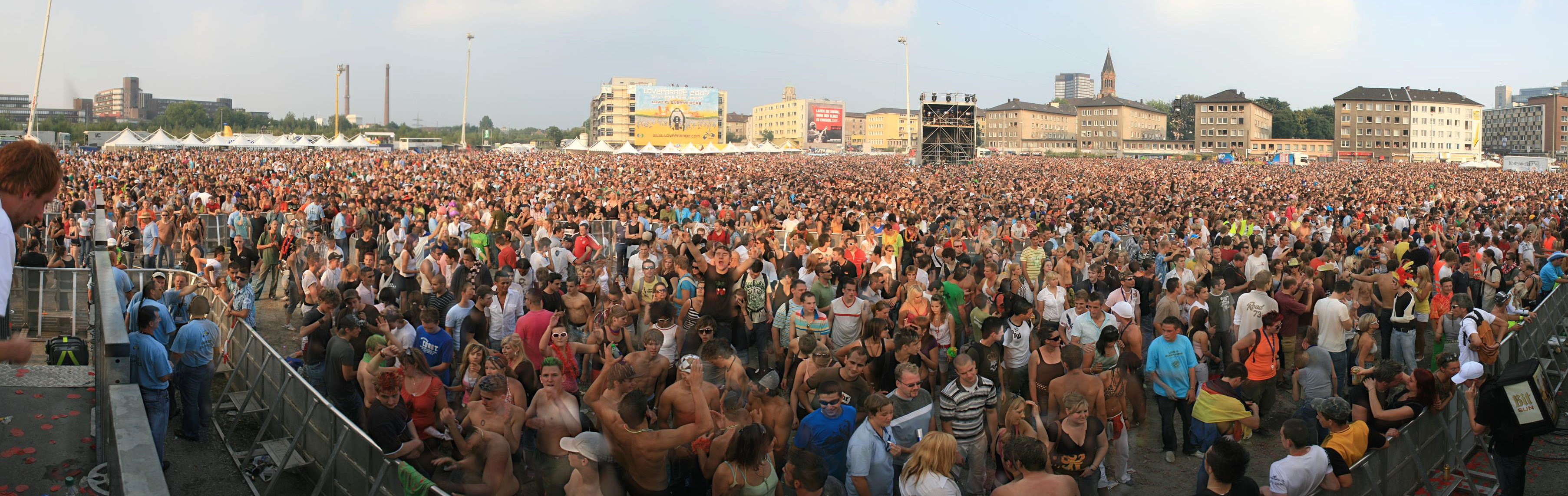 Loveparade 2007, Essen/Germany